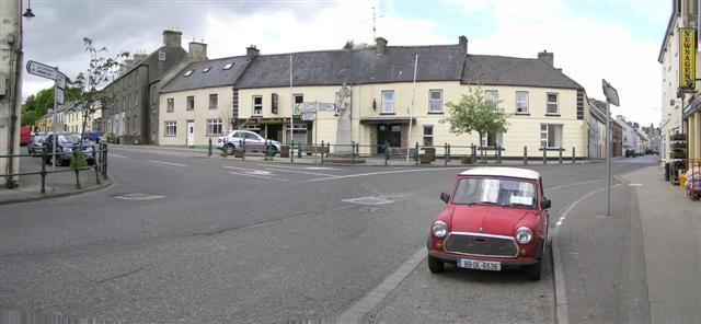 Pettigoe Village Centre Looking west.